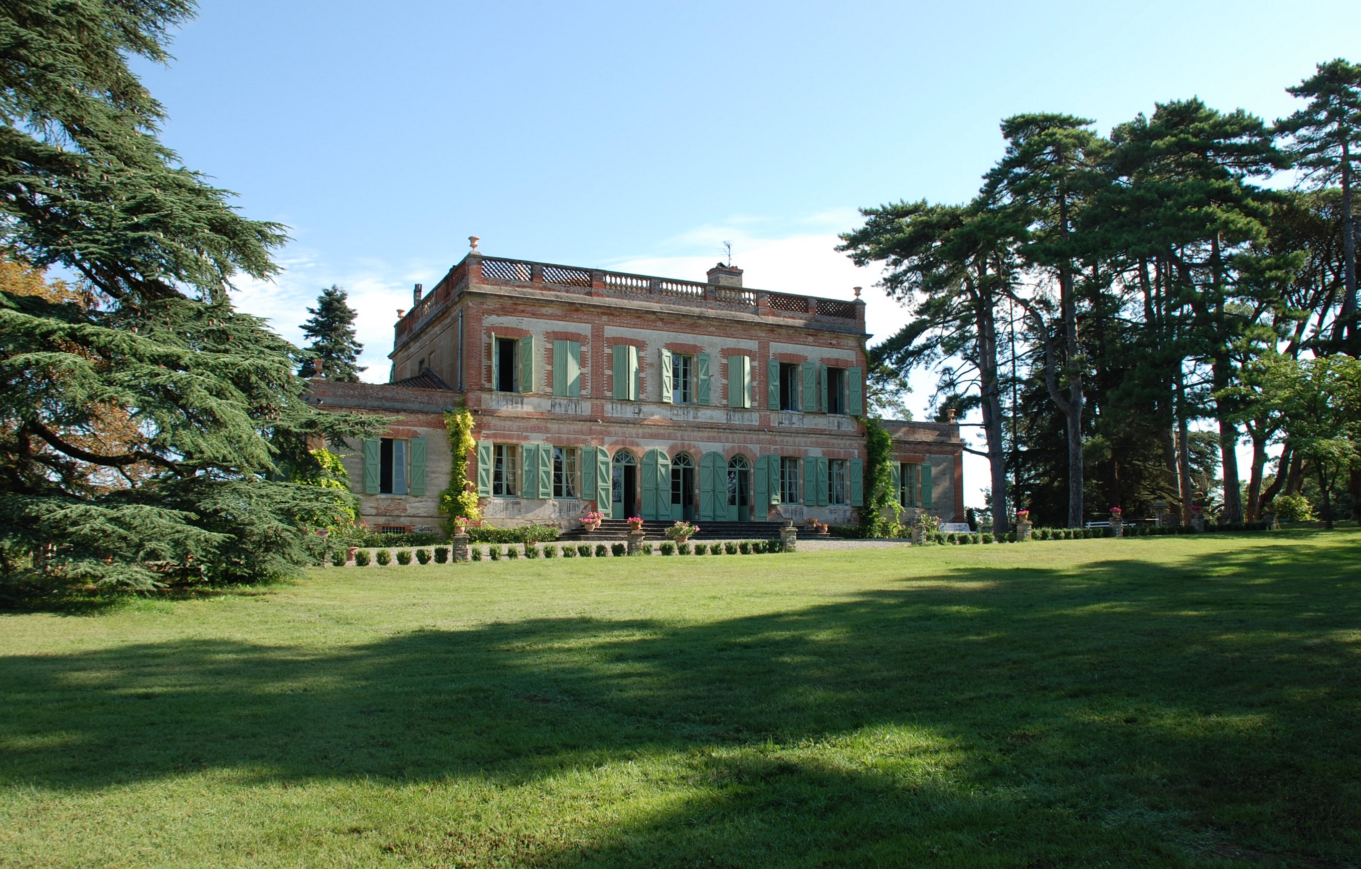 Arquier castle (Château d'Arquier) in Vigoulet-Auzil, Haute Garonne (France. Property of descendants of Joseph Ducuing, famous surgeon from Toulouse, who lived in this residency.